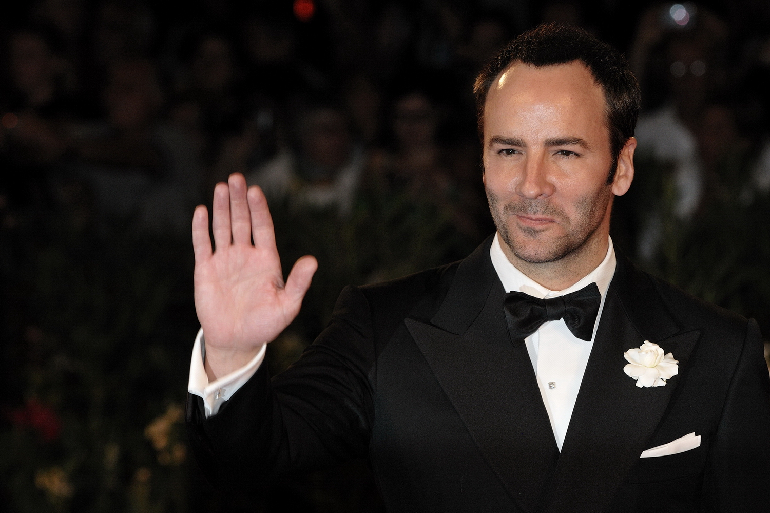 Tom Ford at 2009 Venice Film Festival